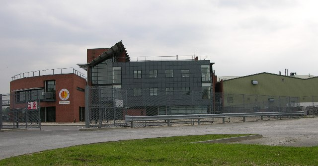 Malton Bacon Factory. Owned by Grampian Foods, known locally only as 'The Baco' this occupies a very large site on an industrial estate to the east of the town and is Malton's largest employer.